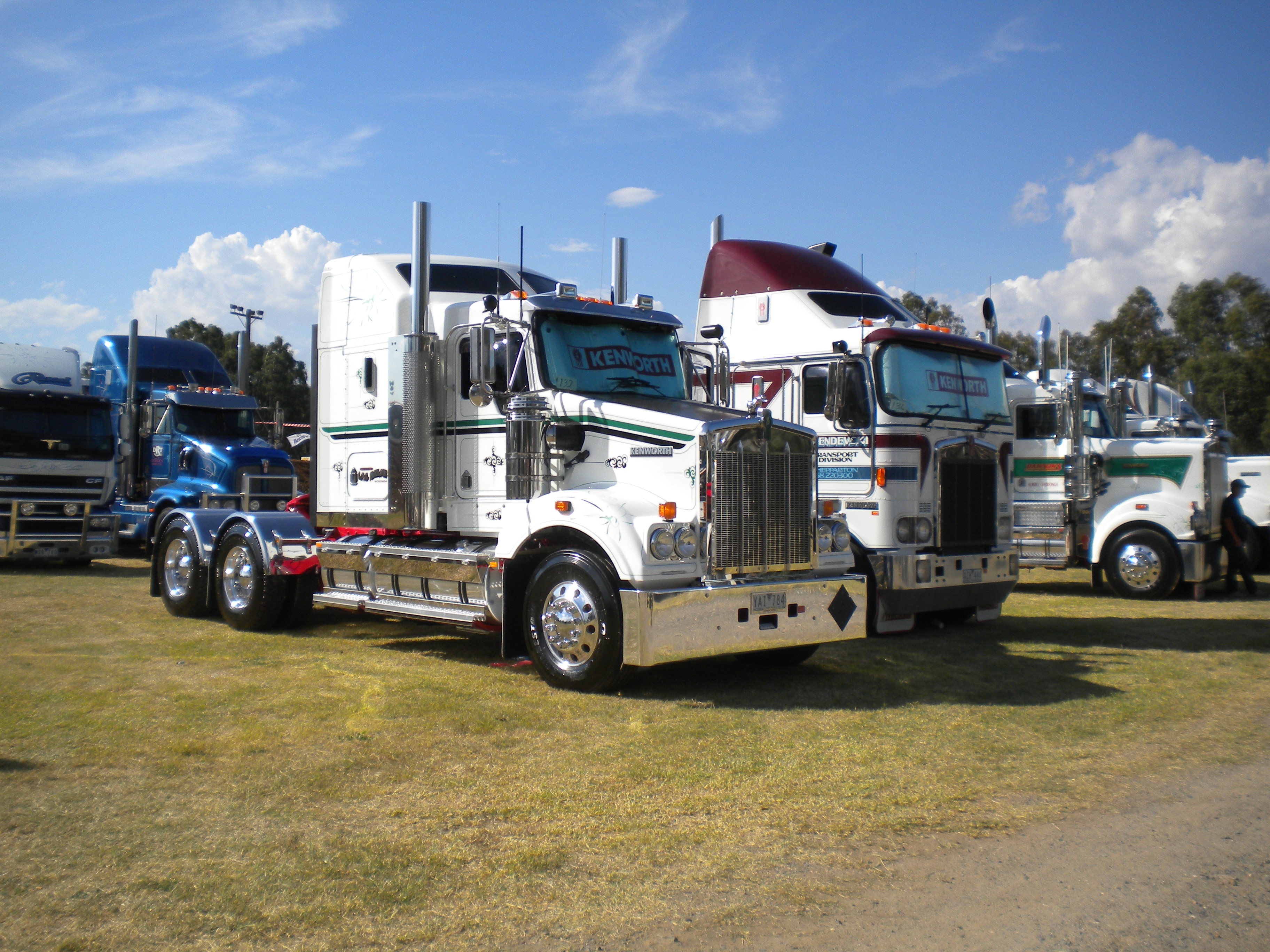 A L & G haulage T408 SAR lovely truck all nice and shiny next to a 108